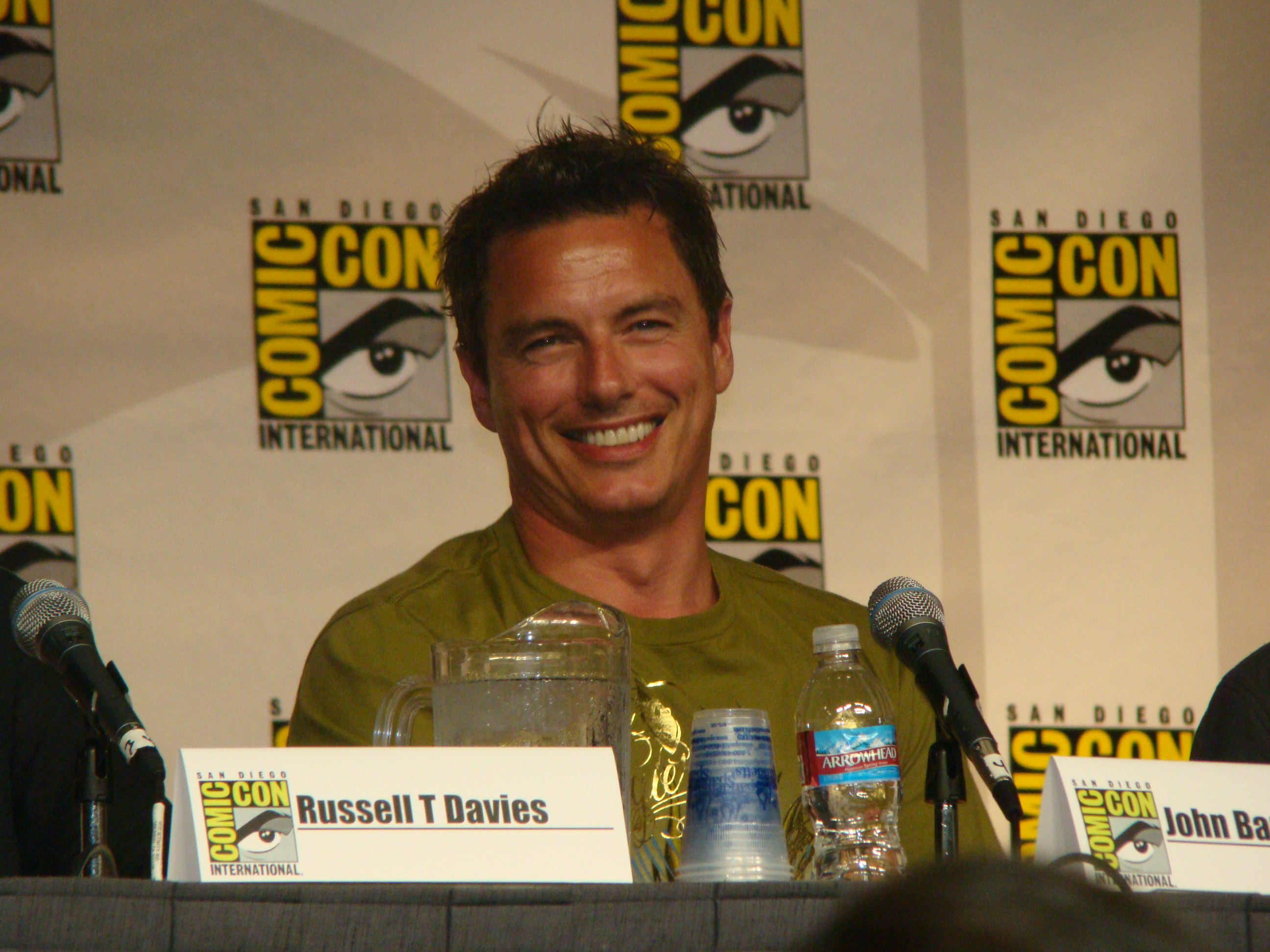 John Barrowman